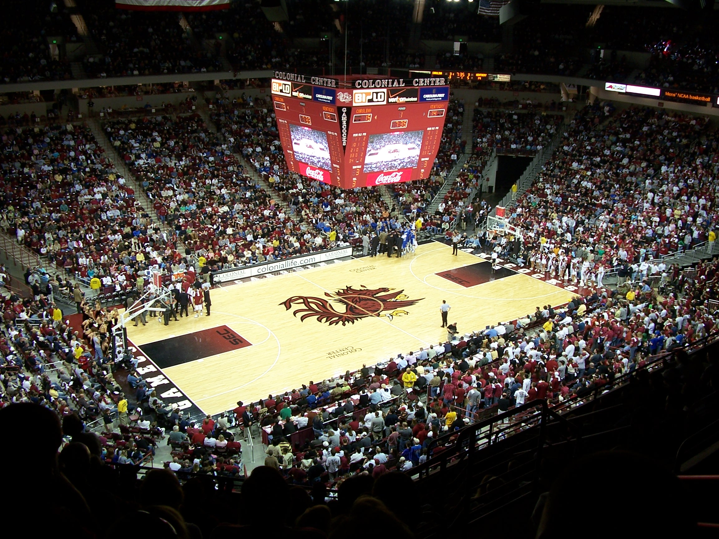 This picture was taken during the Carolina-Kentucky basketball game on February 18, 2006 by Randall Stewart.